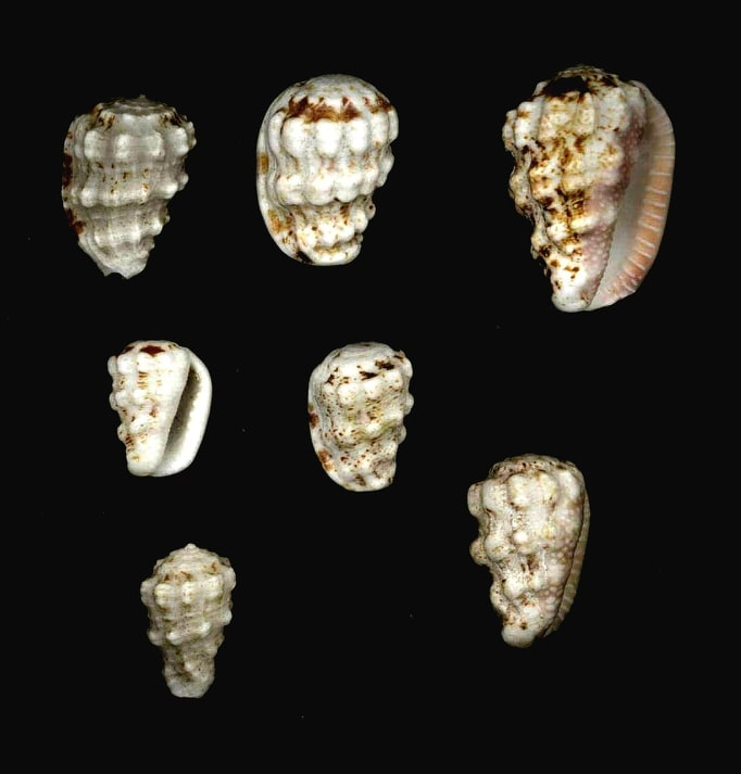 Seashells of the tropical West Atlantic mollusk Morum oniscus (Linnaeus, 1767)[1]; specimens collected in Antilles from the collection of Naturalis Biodiversity Center (in Leiden, Netherlands).